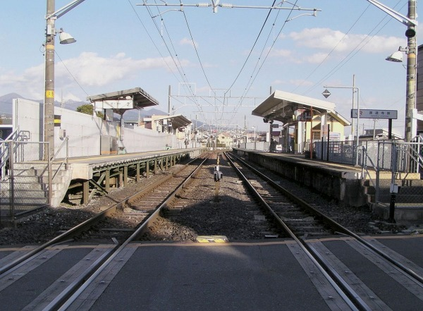 Gendōji Station on Minobu Line